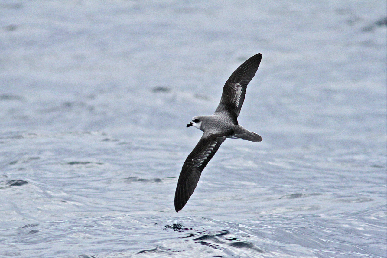 Soft-plumaged Petrel off Albany, Western Australia on the 28th July 2012